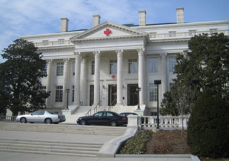 HQ of American Red Cross on 17th St NW in Washington, D.C.